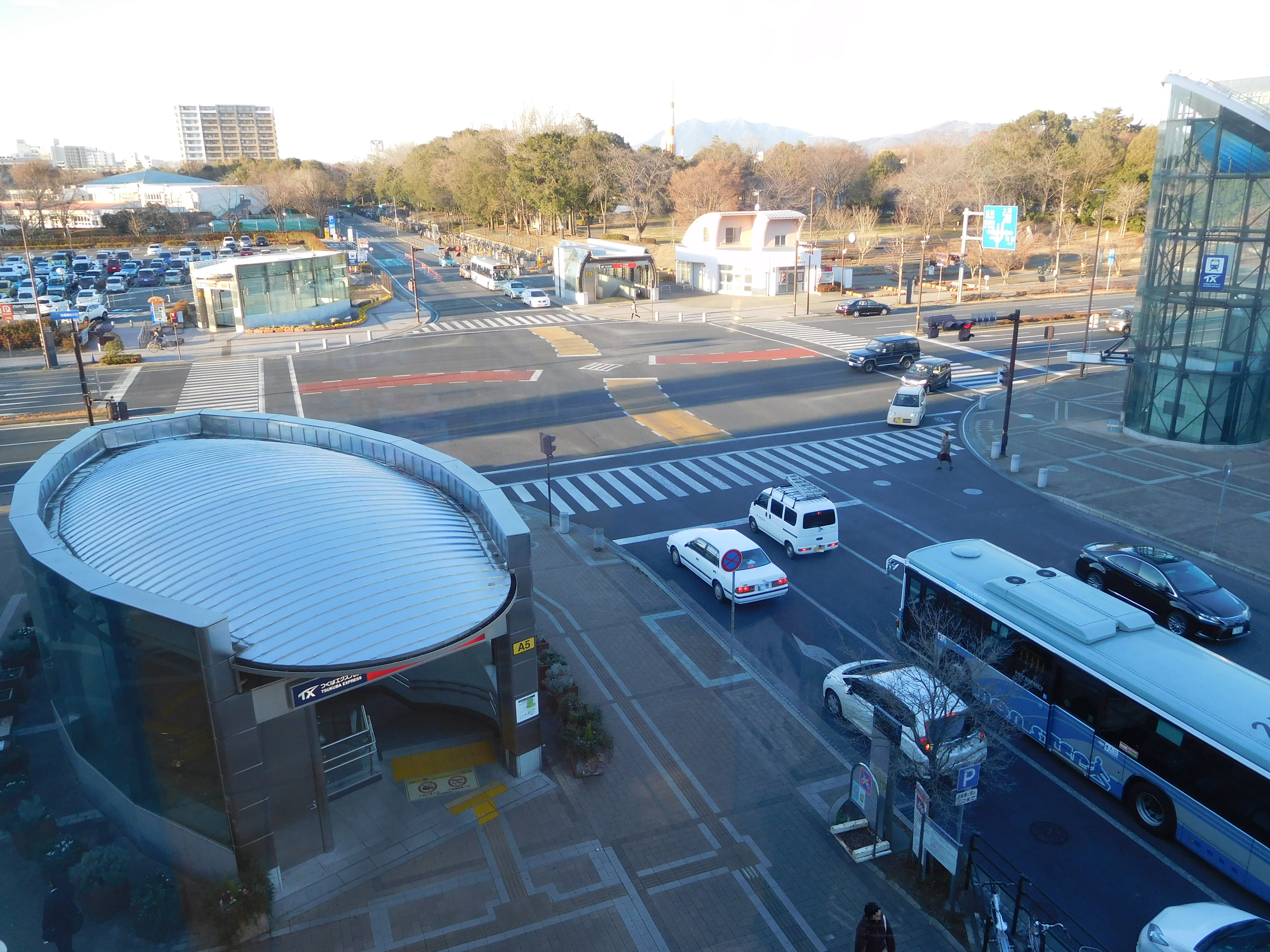 These are exits of Tsukuba station in Tsukuba, Ibaraki, Japan.